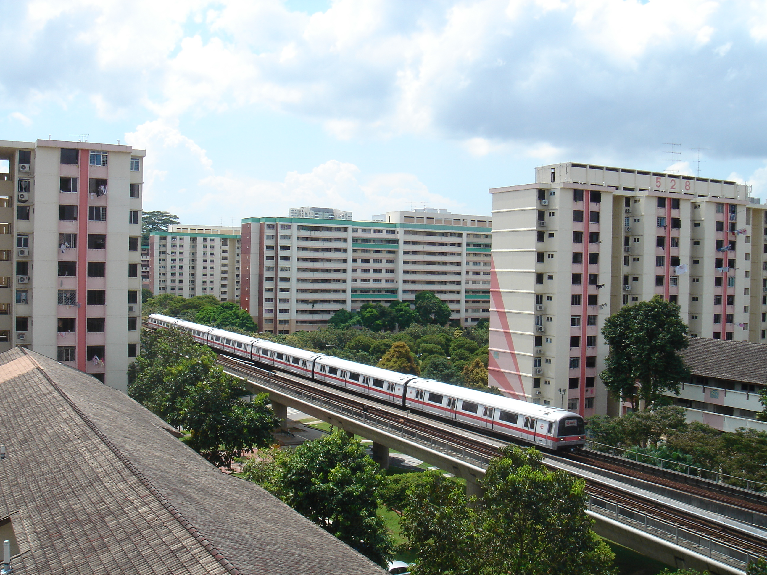 Aerial view of the Bukit Gombak town, Singapore.